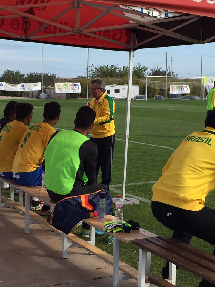 Photo taken at IFCPF Pre Paralympic Tournament Salou 2016 using personal iPhone.